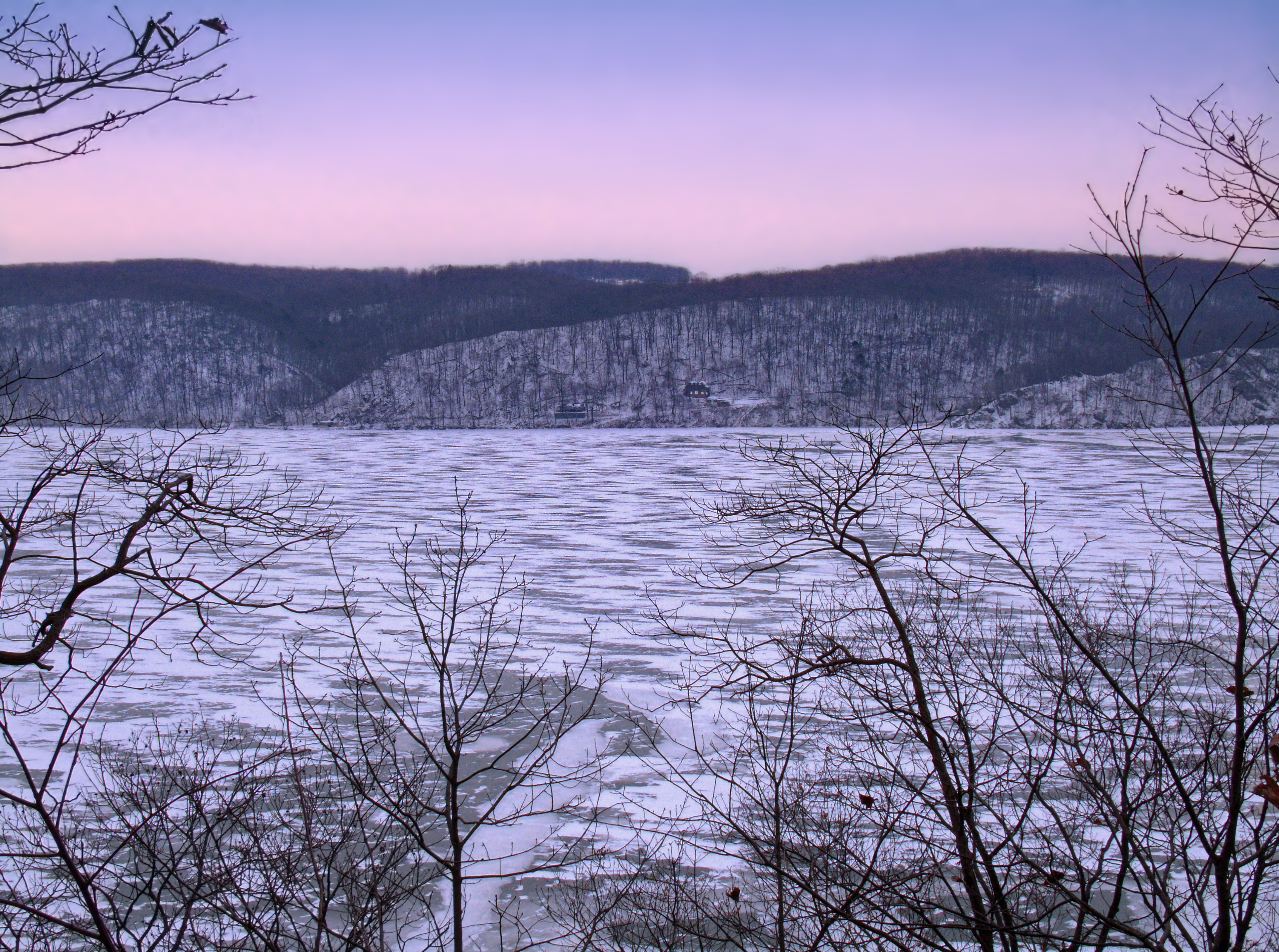 Susquehanna River, Lower Windsor Township, York County as seen from the Turkey Hill Trail in Manor Township, Lancaster County. Managed by the Lancaster County Conservancy, the Turkey Hill Trail traverses the steep River Hills region south of Washington Boro.